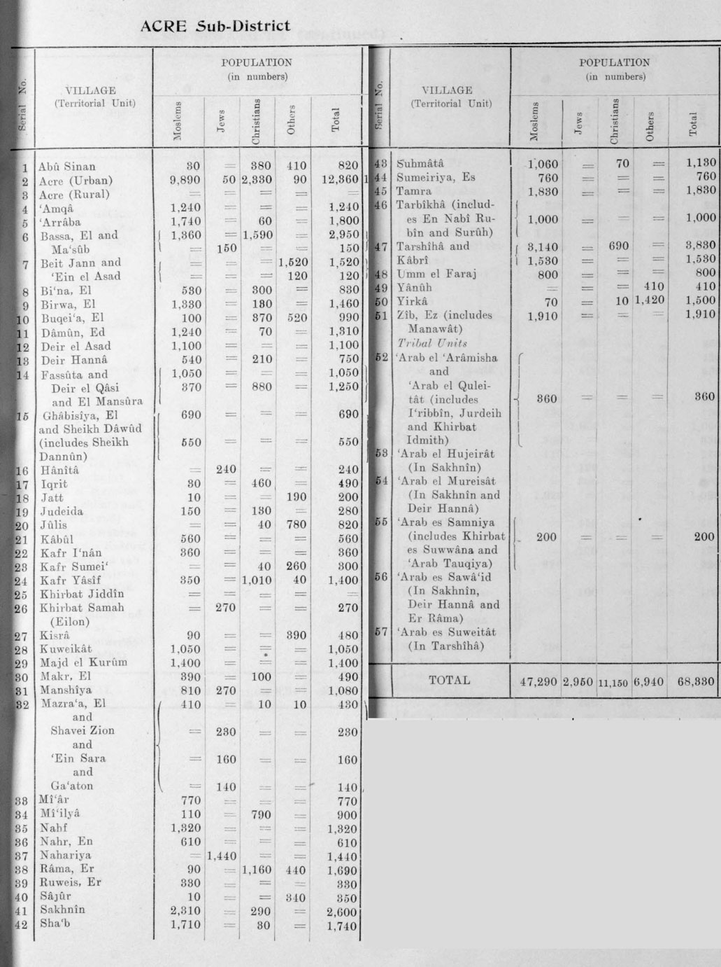 1945 Palestine Mandate Village Statistics